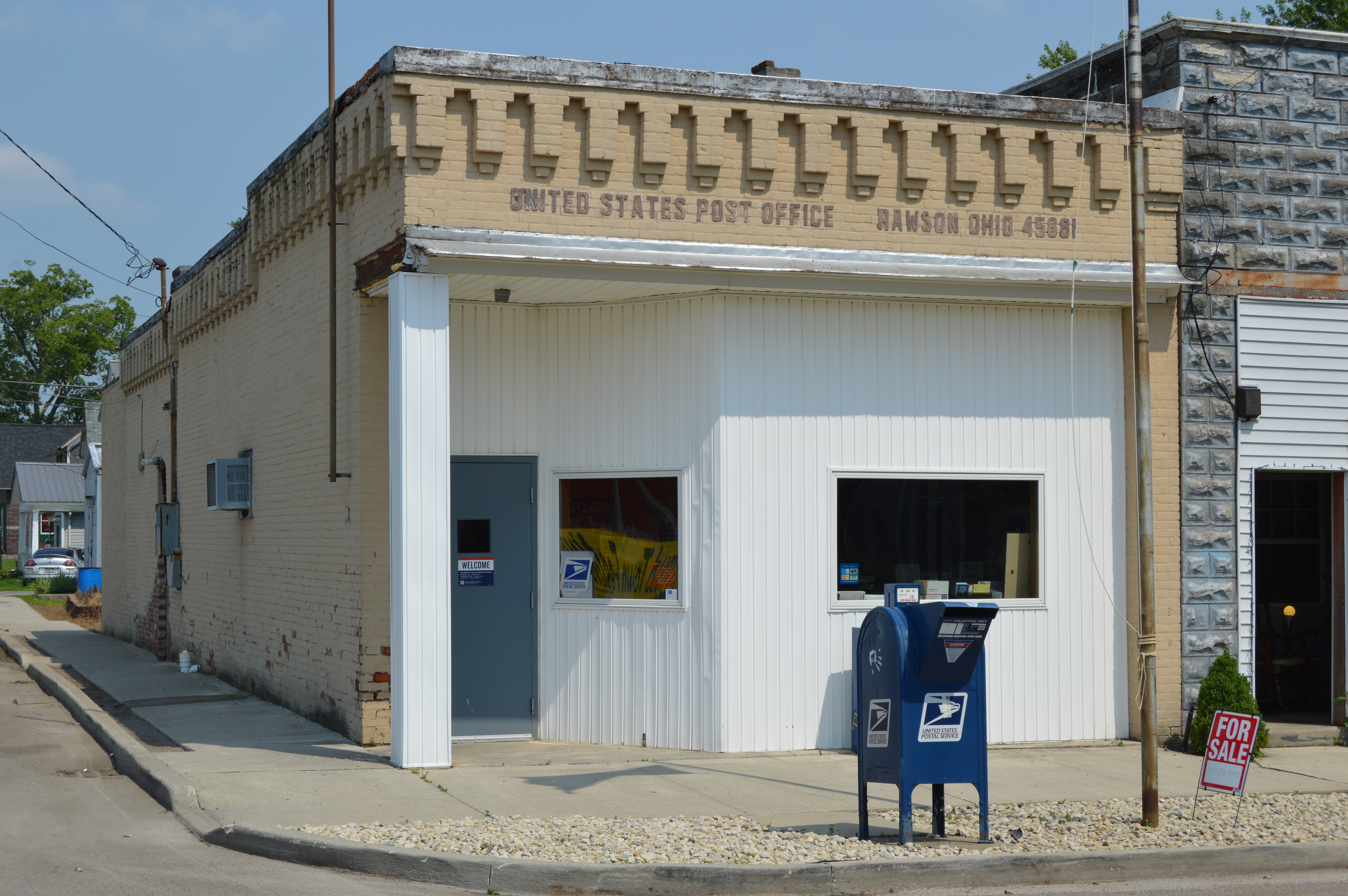 Front of the Rawson post office, located at 101 S. Main Street in Rawson, Ohio, United States.